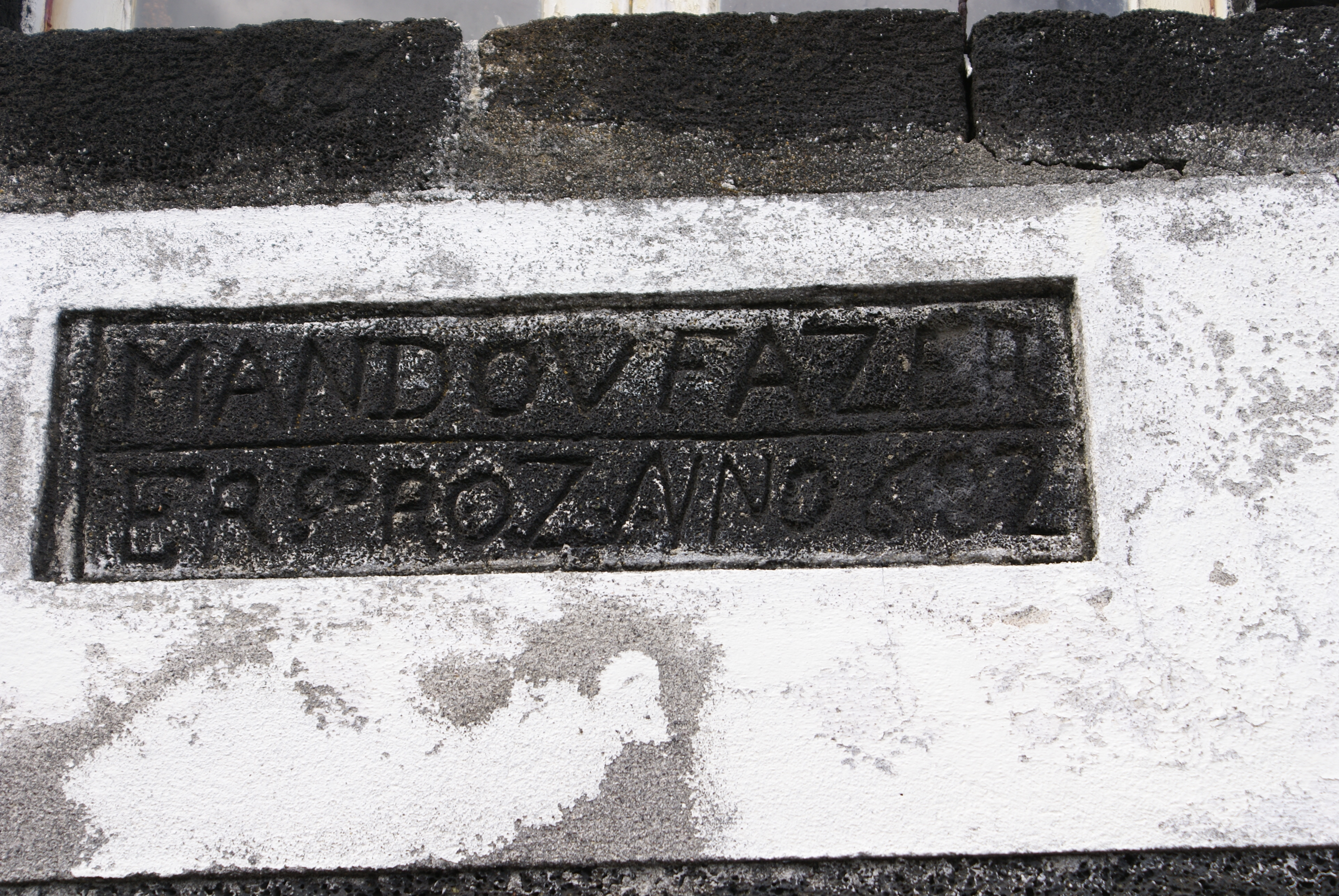 Inscription in volcanic rock, on the front façade of the Chapel of Nossa Senhora dos Milagres, Port of Cachorro, Bandeiras, Madalena do Pico (Azores), Portugal